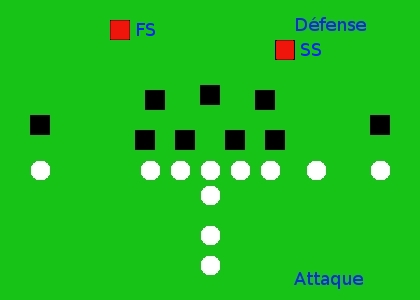 safeties positions on the field (football)